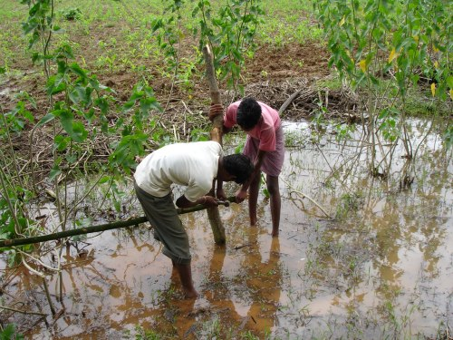 Farmers engaged in preparation of fence from Bans in Bastar region.